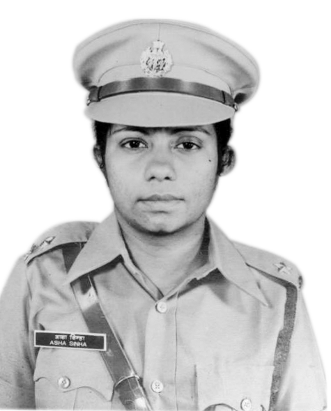 Asha Sinha, IPS, Retd Director General of Police is the First Lady Commandant of any Paramilitary Force in India.